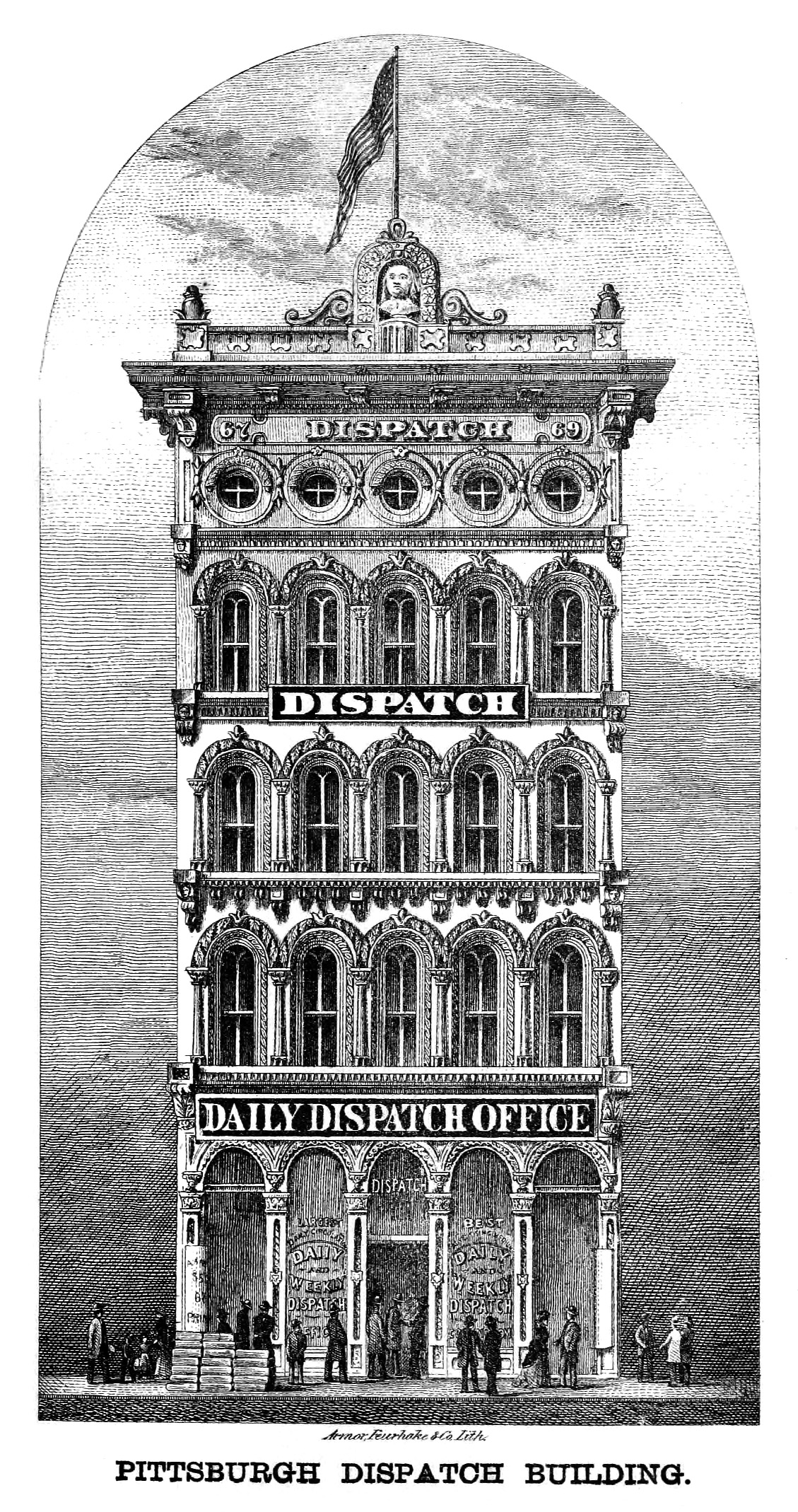 Illustration depicting the Pittsburgh Dispatch Building in Pittsburgh, PA